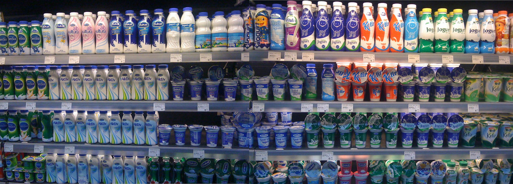 Nowhere in the world I've seen such a diverse supply of natural yoghurt as in Sarajevo supermarkets